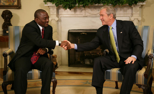 President George W. Bush welcomes President Joseph Kabila of the Democratic Republic of Congo to the Oval Office Friday, Oct. 26, 2007. Among the topics the leaders discussed during the visit were the successes of the newly elected Kabila government and the remaining challenges to a secure and prosperous Congo.